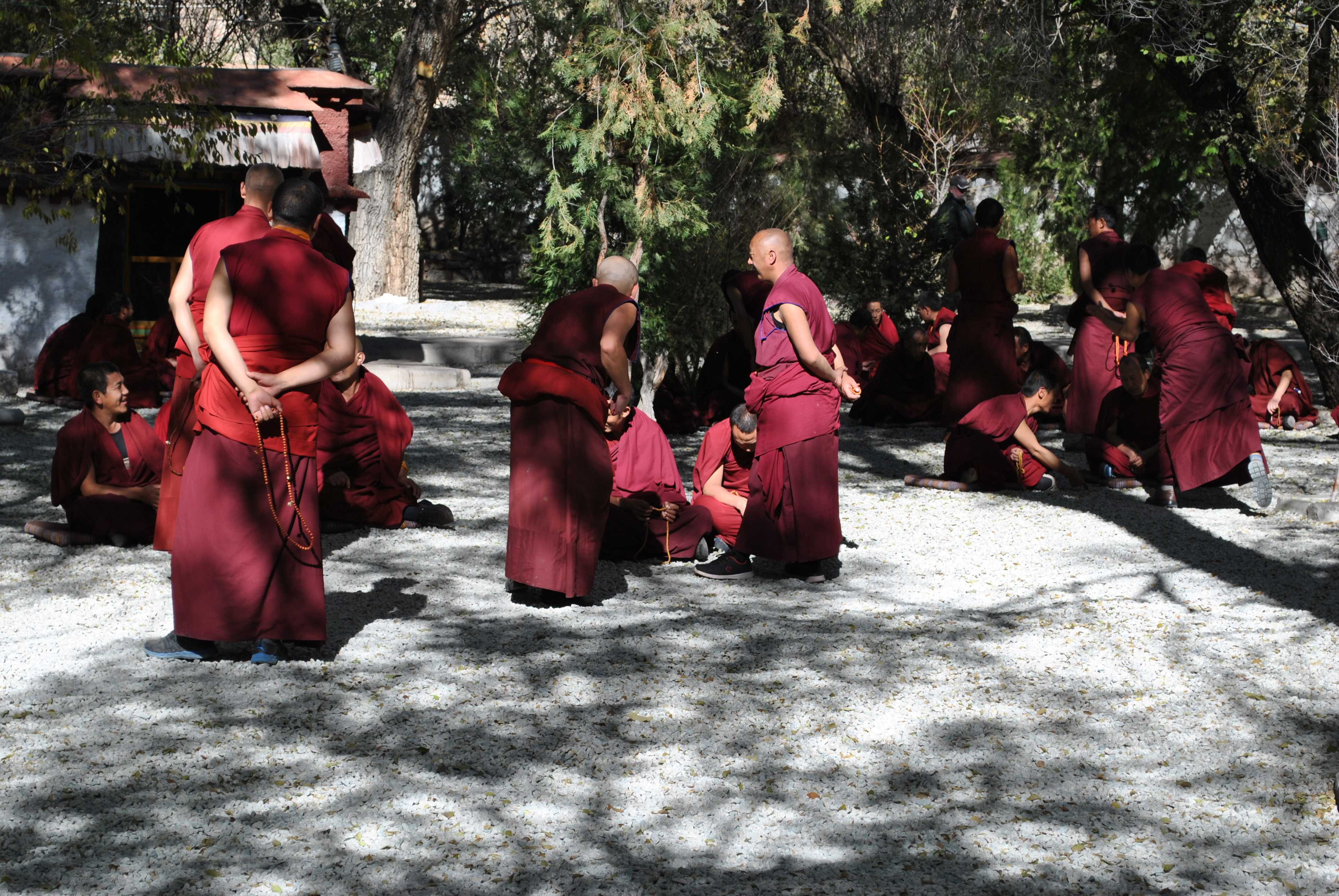 Monks debating, Sera monastery in Tibet, 2013